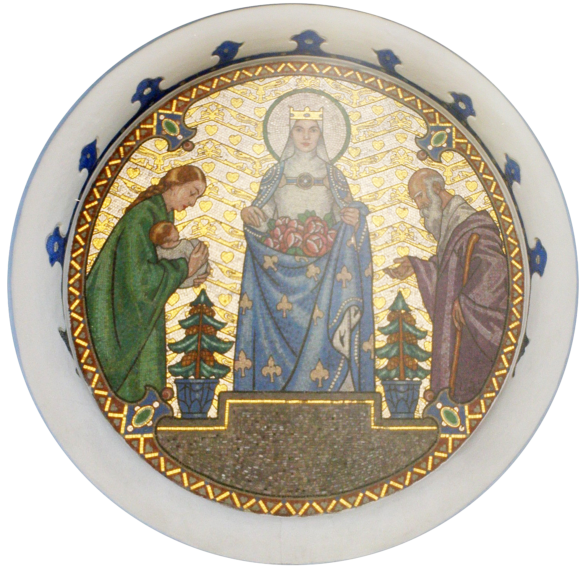 Elizabeth of Hungary - Church of St. Elisabeth (Bratislava)